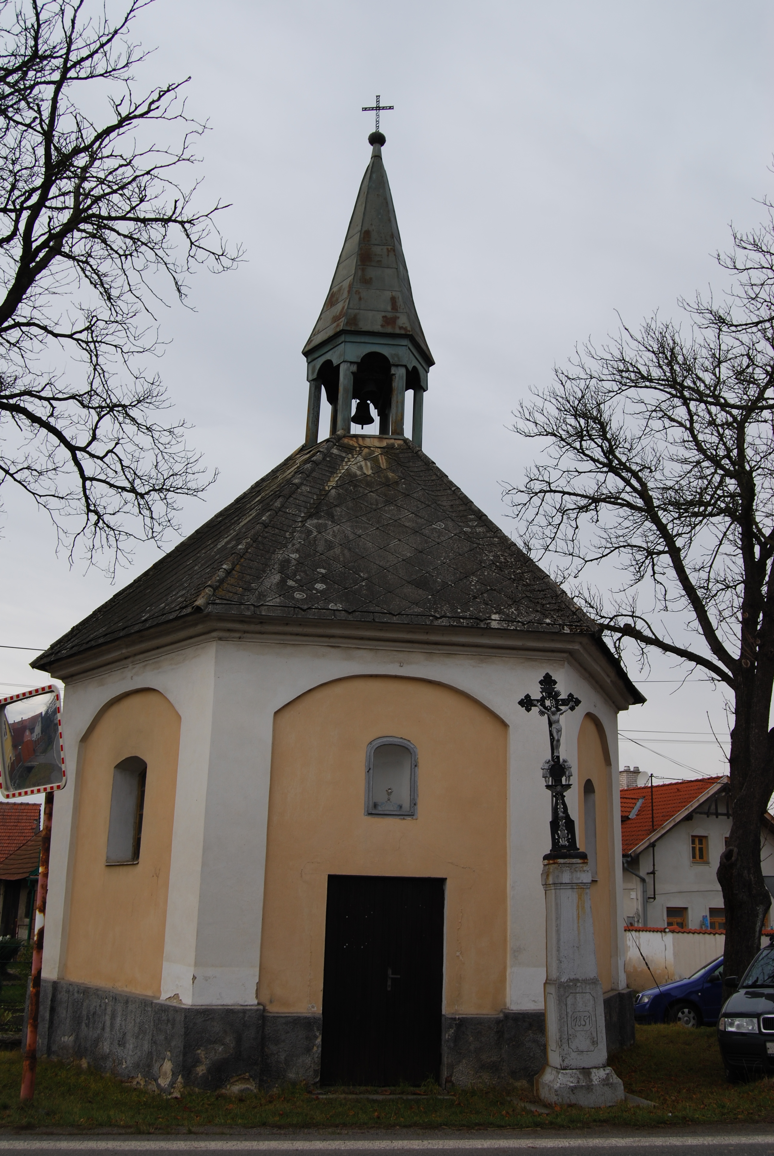 Vranovice village in Příbram District, Czech Republic. Chapel